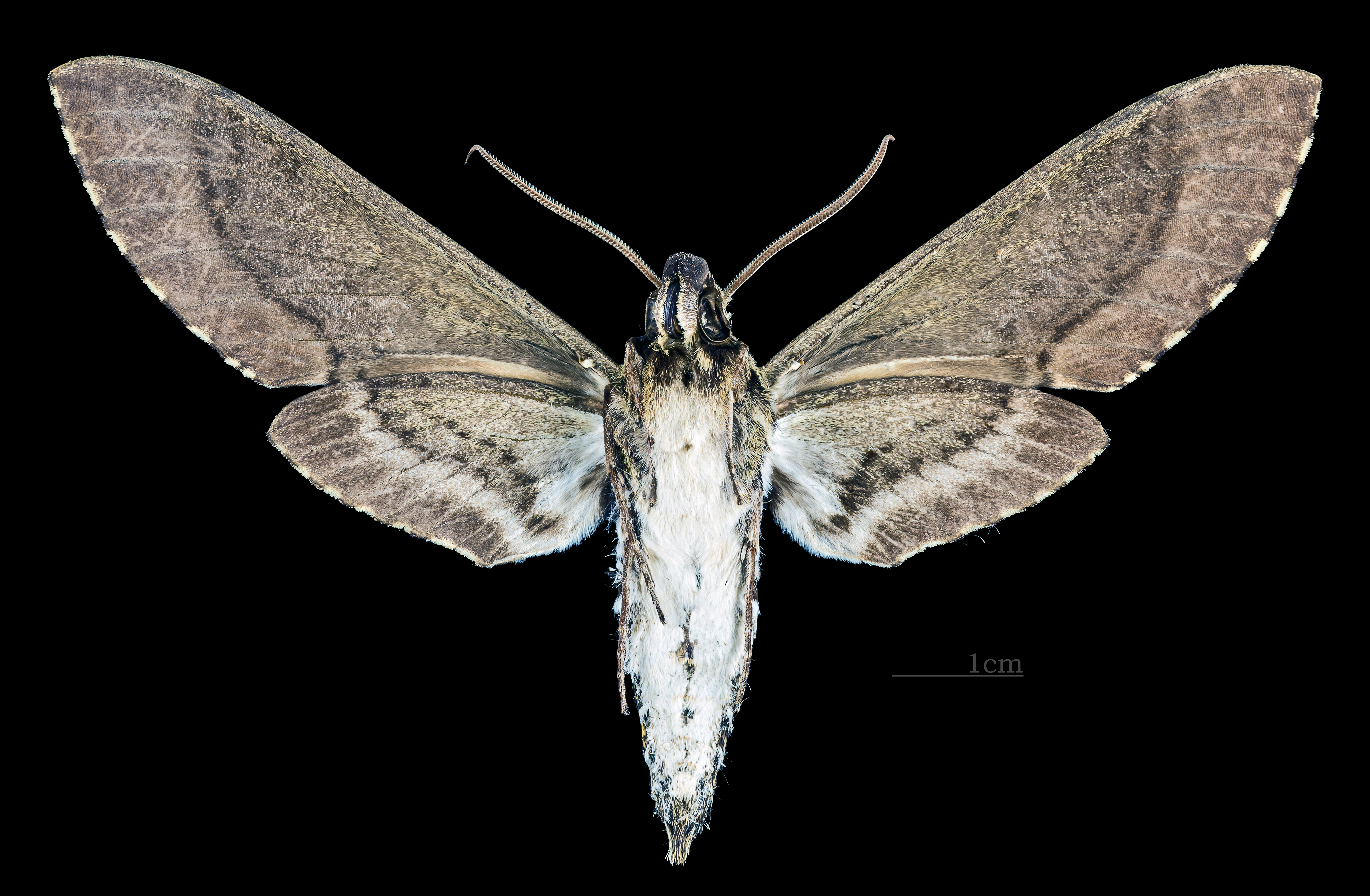 Manduca scutata - △ Ventral side Collection of the Mathematician Laurent Schwartz